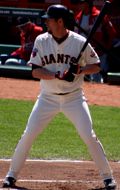 Aubrey Huff at bat for the San Francisco Giants.